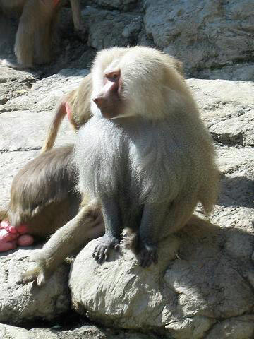 Hamadryas Baboon in Prospect Park Zoo.